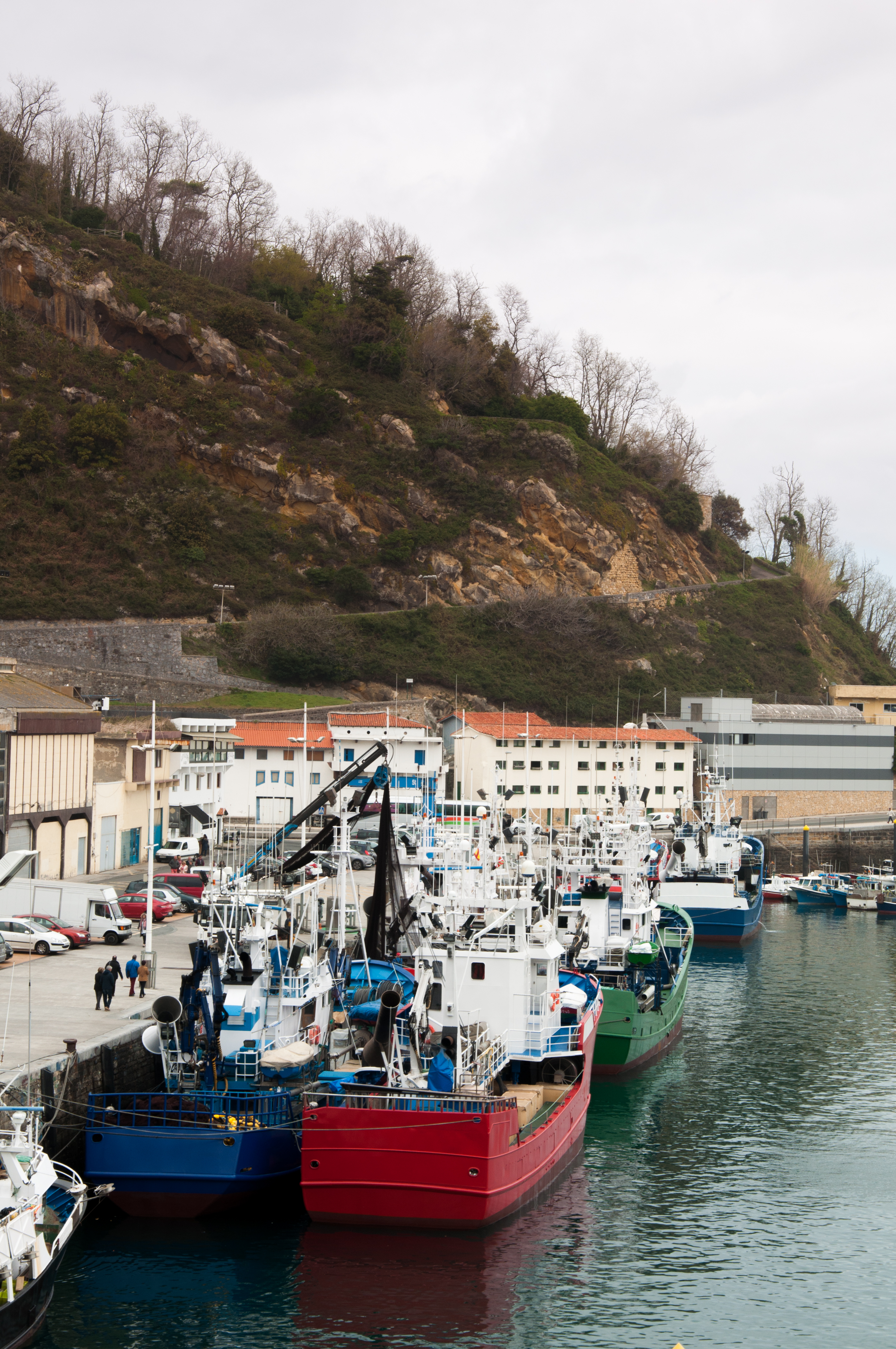 Getariako portua, ibilbidean zehar aurki daitekeen tokietako bat.